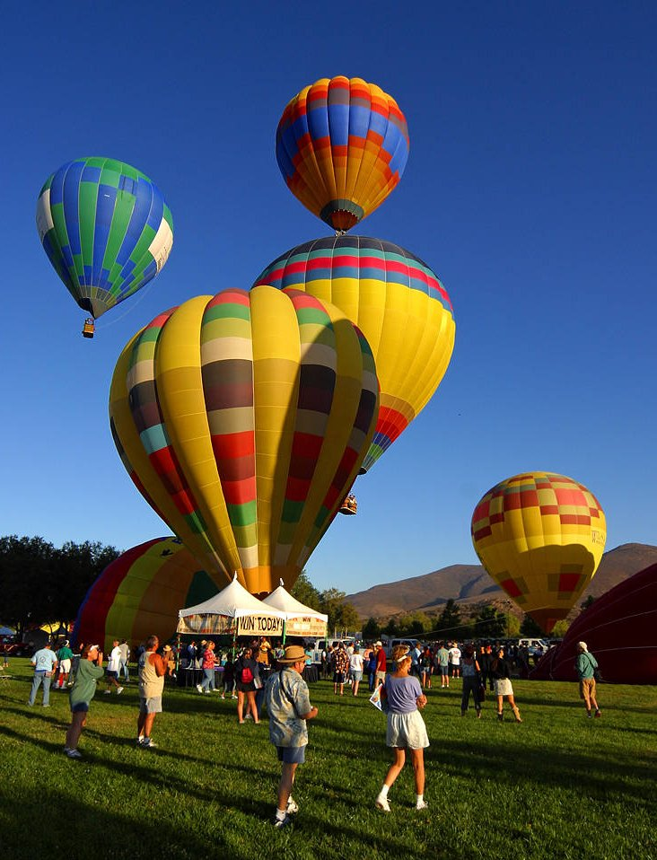 From PD